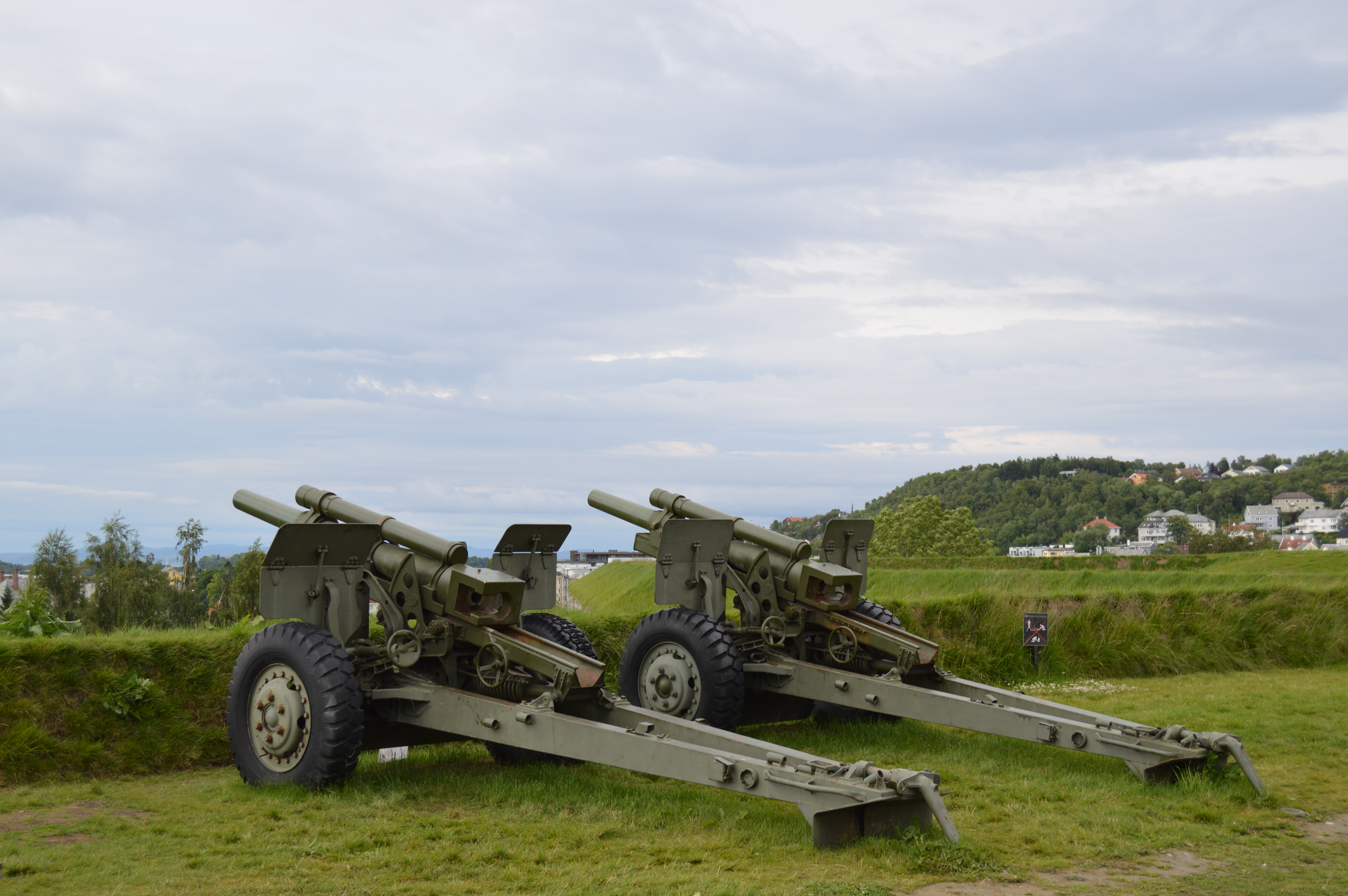 M2 howitzers at Kristiansten Fortress.